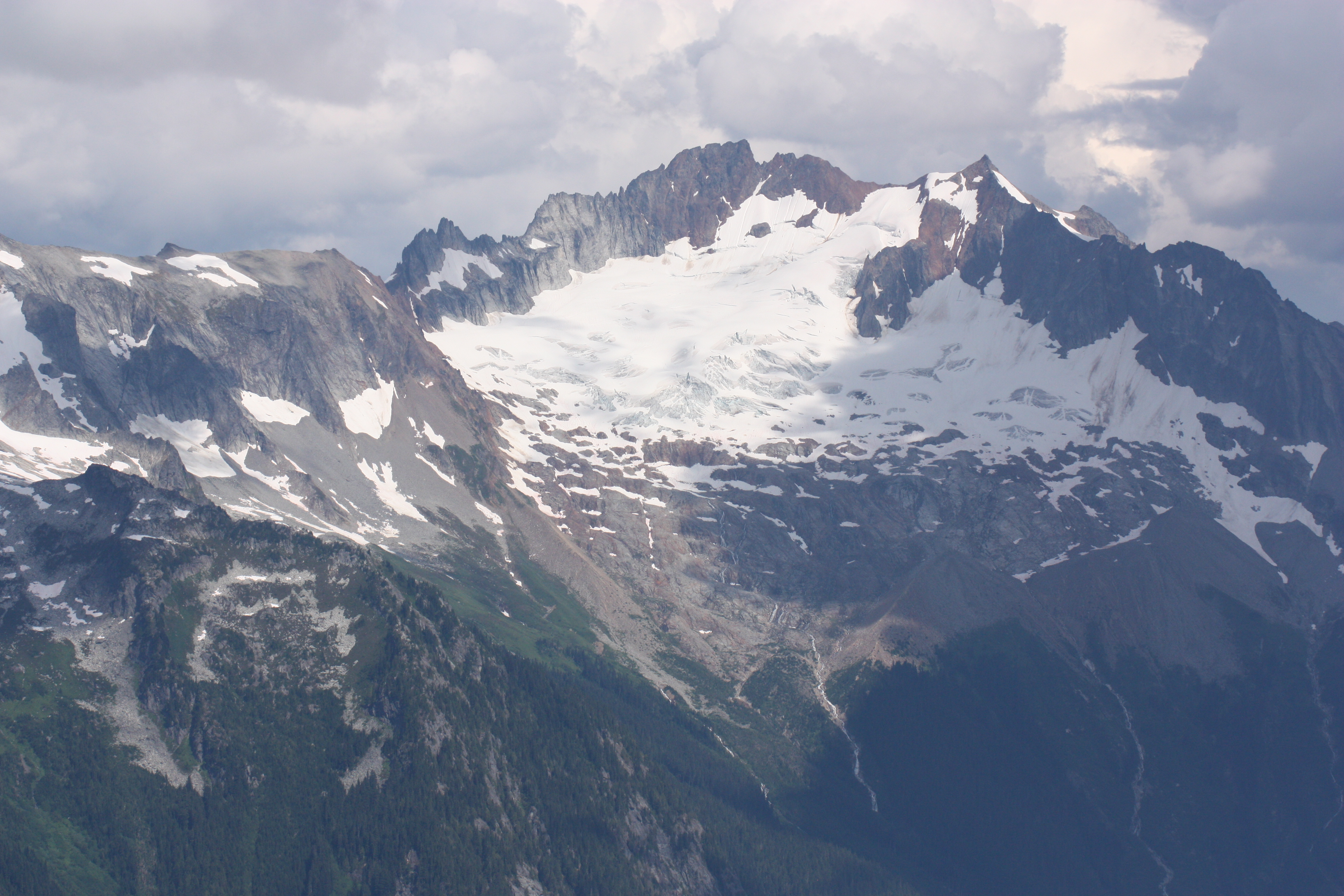 Boston Peak (center skyline); Sahale Mountain (right center skyline); Quien Sabe Glacier (below), Boston, Morning Star, Midas, and Soldier Boy Creeks (in forest, left to right) Viewpoint location: Hidden Lake Trail, North Cascades National Park Viewpoint elevation: 1782 meter (5848 ft) View direction: 92° Location source: Garmin GPSmap 60CSx Location Datum: WGS84